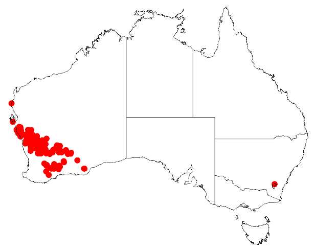 Acacia andrewsii Occurrence data from Australasia Virtual Herbarium downloaded from on 8 December 2018